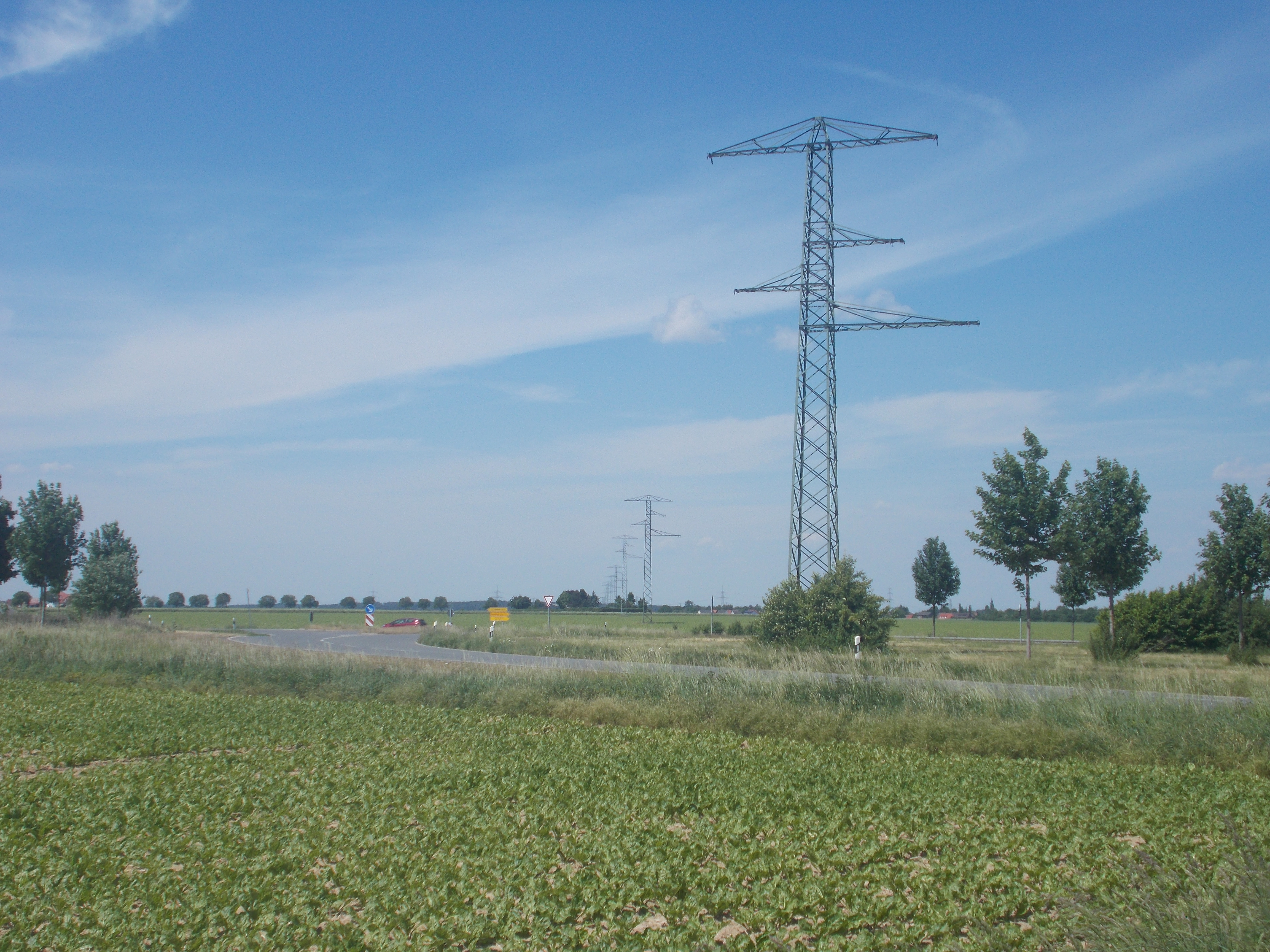 Defunct Hallendorf–Peine single-circuit 110 kV power line (owned by Salzgitter Flachstahl GmbH/Salzgitter AG) at the crossing of Bundesstraße 1 in Vechelde, near Peine. This unusualy shaped power line towers are defunct since 2010, but not deconstructed until now. View towards Sierße.